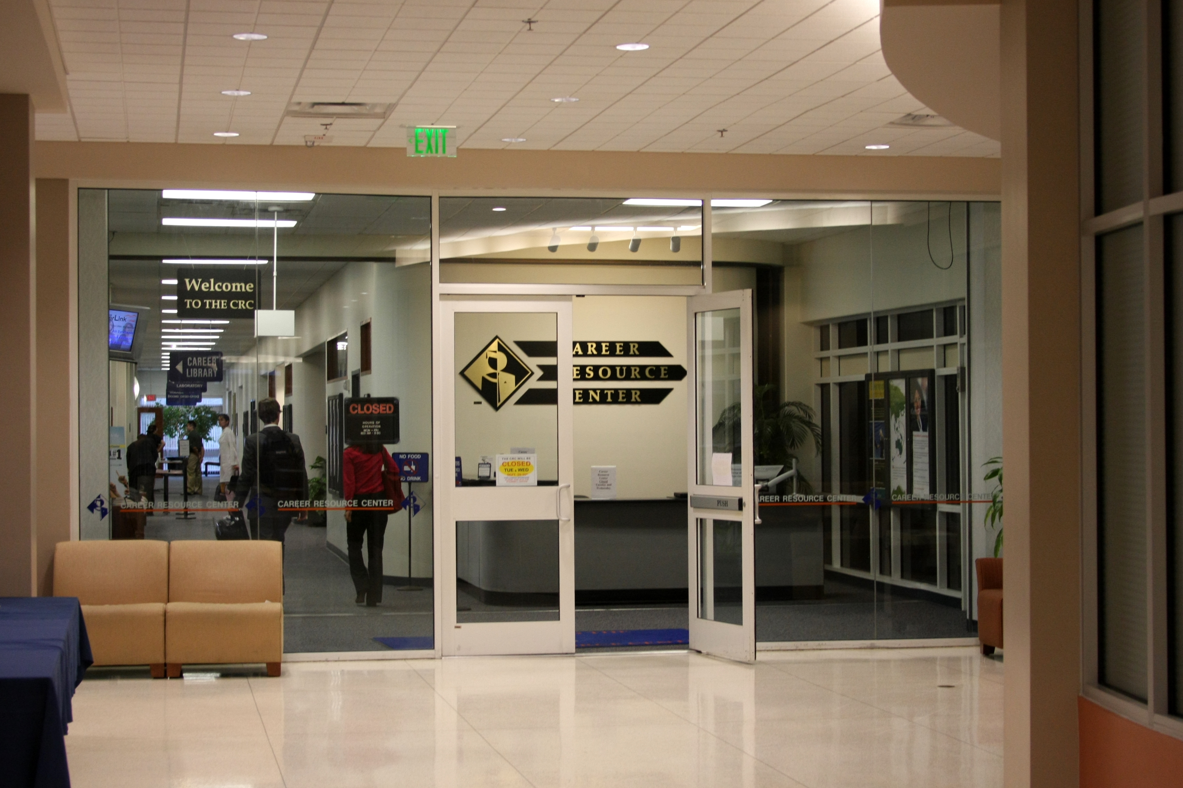 The Career Resource Center at the Reitz Union at the University of Florida